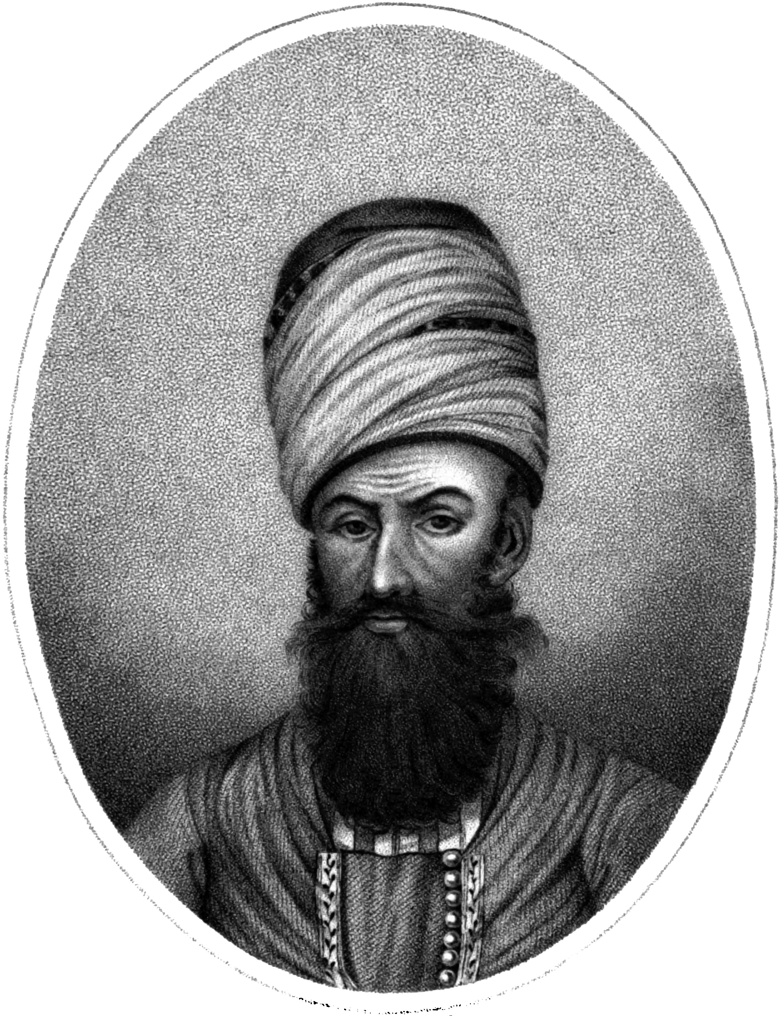 Karim Khan by Charles Heath